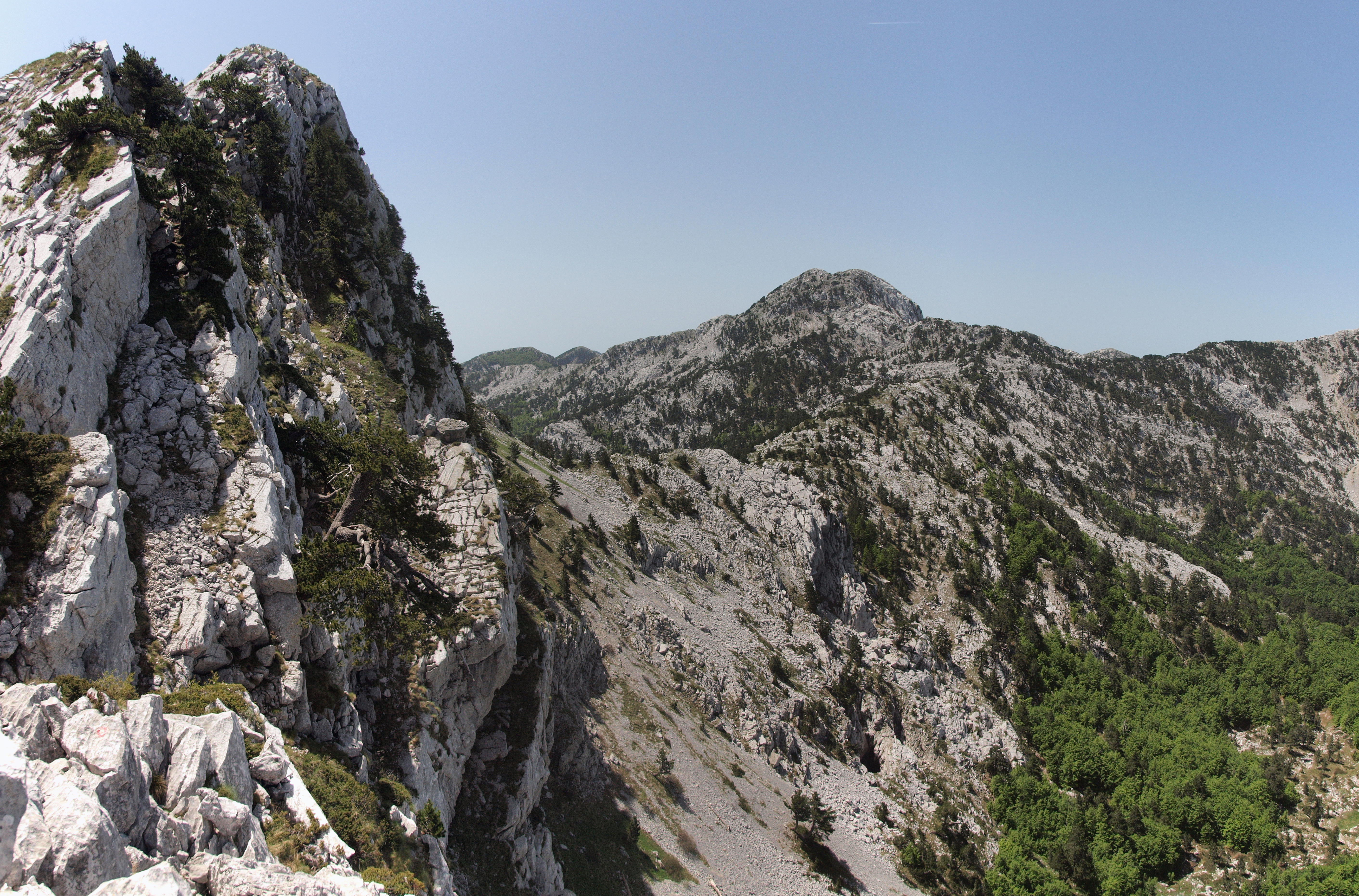 Vucji zub leg P.Cikovac towards Zubacki kabao - the Vucji zub ice cave in the lower half